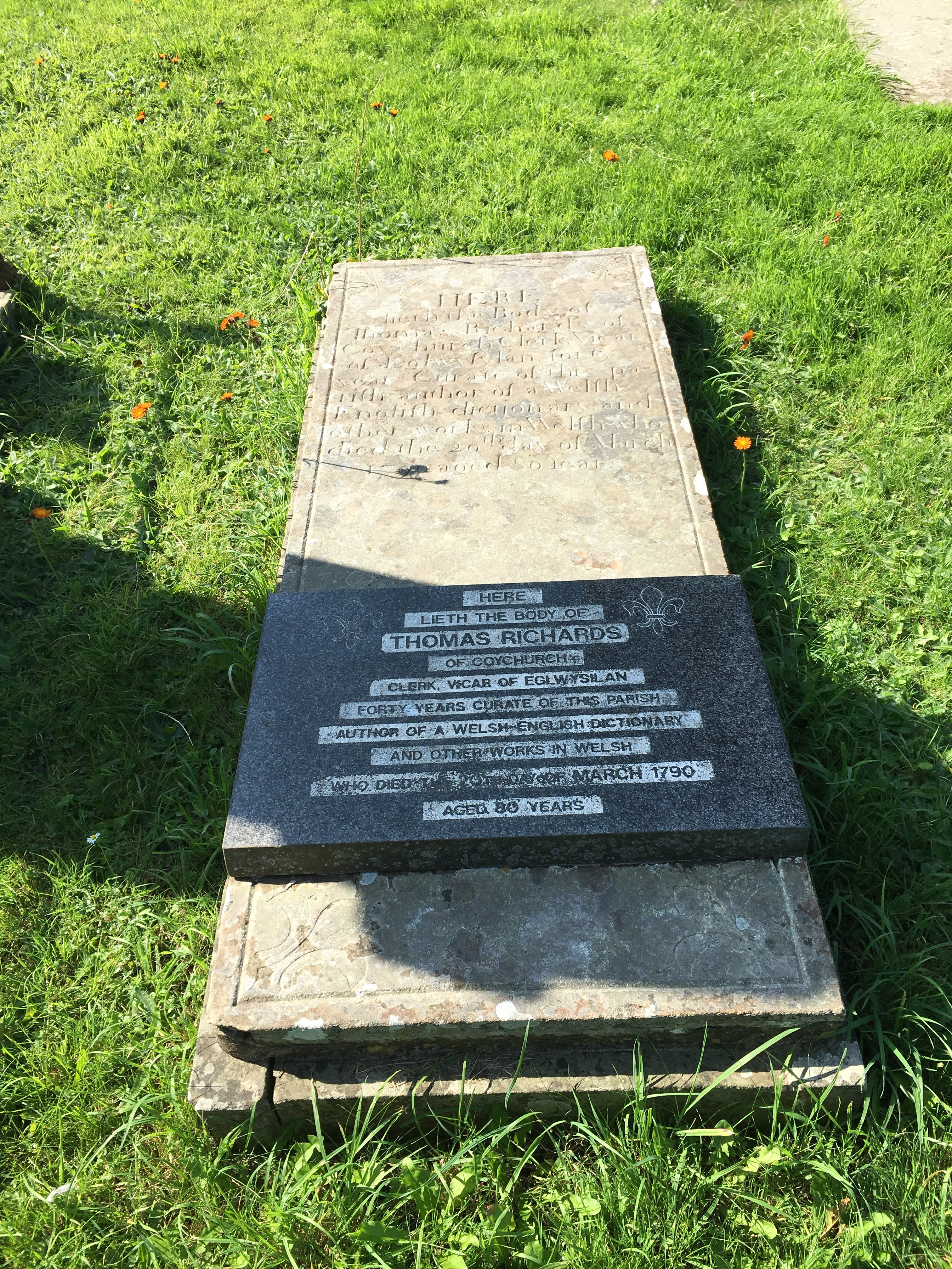 Tombstone of Thomas Richards in Coychurch churchyard Wikidata has entry Q29496417 with data related to this item.